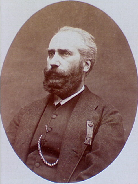 Arthur Arnould (1833-1895), journalist, writer and Communard